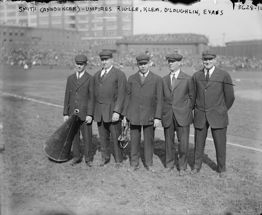 Smith (announcer) & Umpires Charles "Cy" Rigler, Bill Klem, Francis "Silk" O'Laughlin, and Billy Evans at the Baker Bowl during the 1915 World Series.